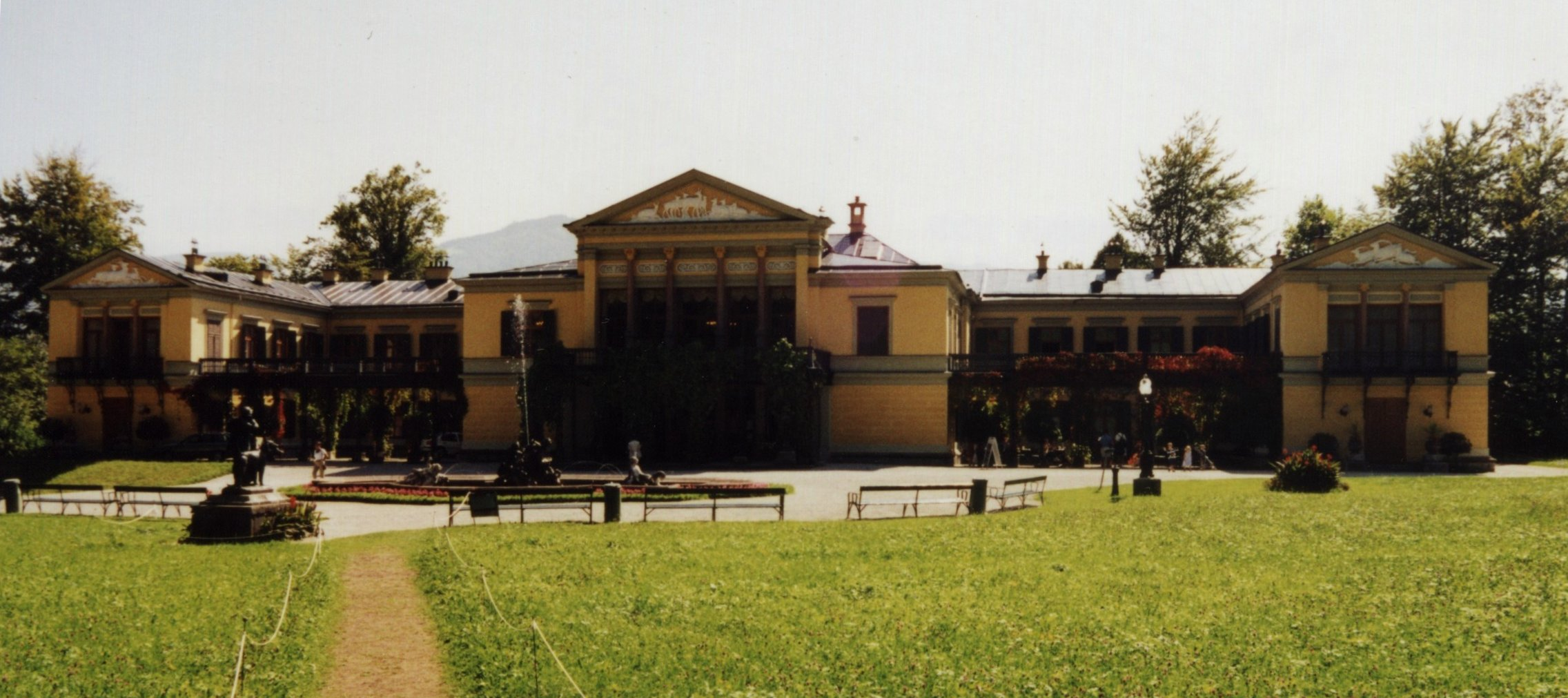 Austria, Bad Ischl, Kaiservilla